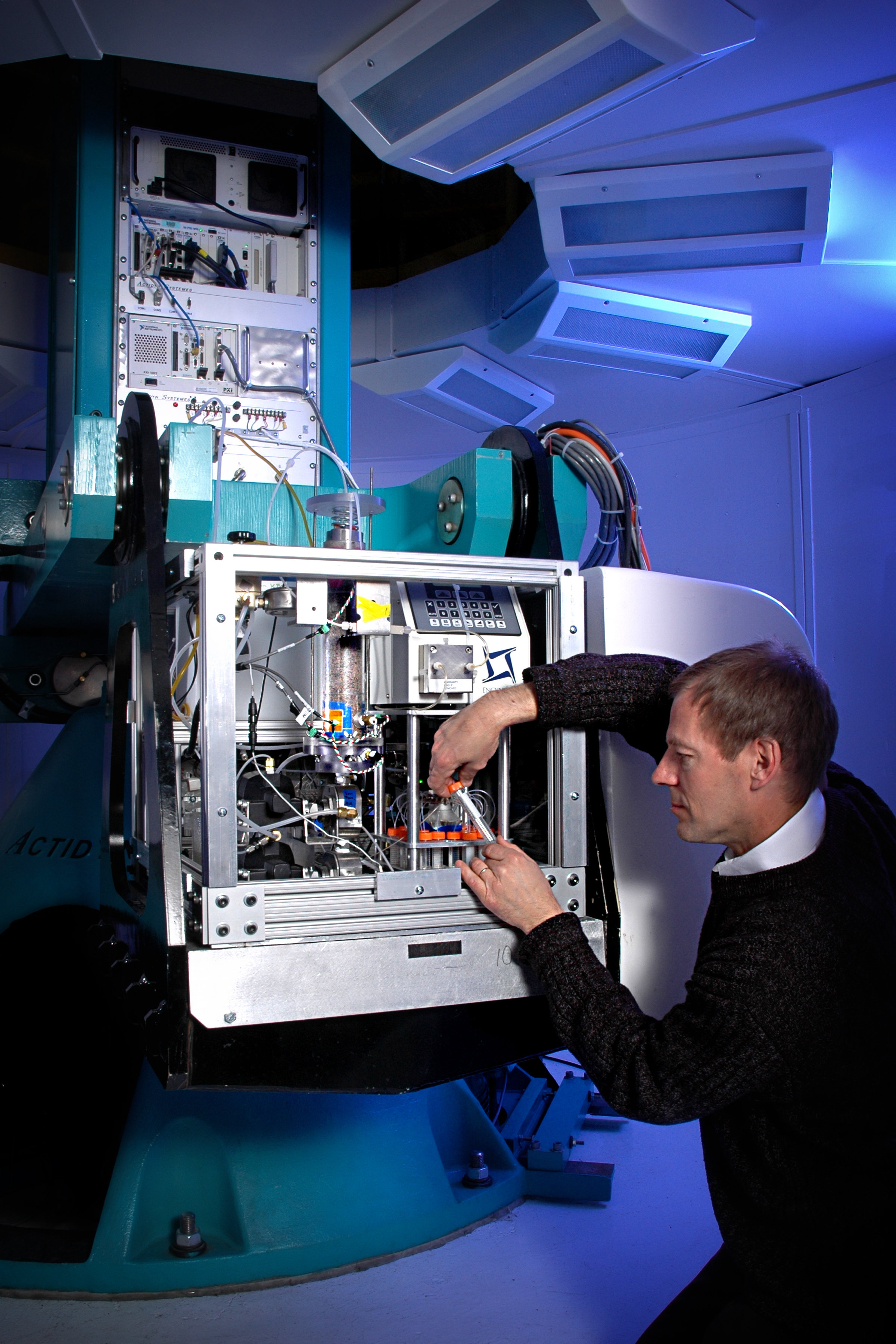 A scientist works on the large geocentrifuge of the Geocentrifuge Research Laboratory at the Idaho National Laboratory. The INL Geocentrifuge Research Facility is being used to improve mathematical models for the movement of fluids and contaminants and long-term performance of engineered caps and barriers used for subsurface waste disposal or stabilization, and for nuclear- and national defense-related research.